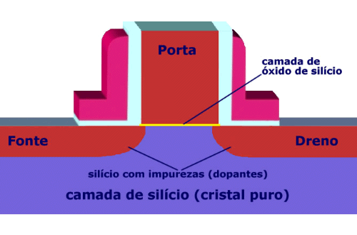 Transistor and its components